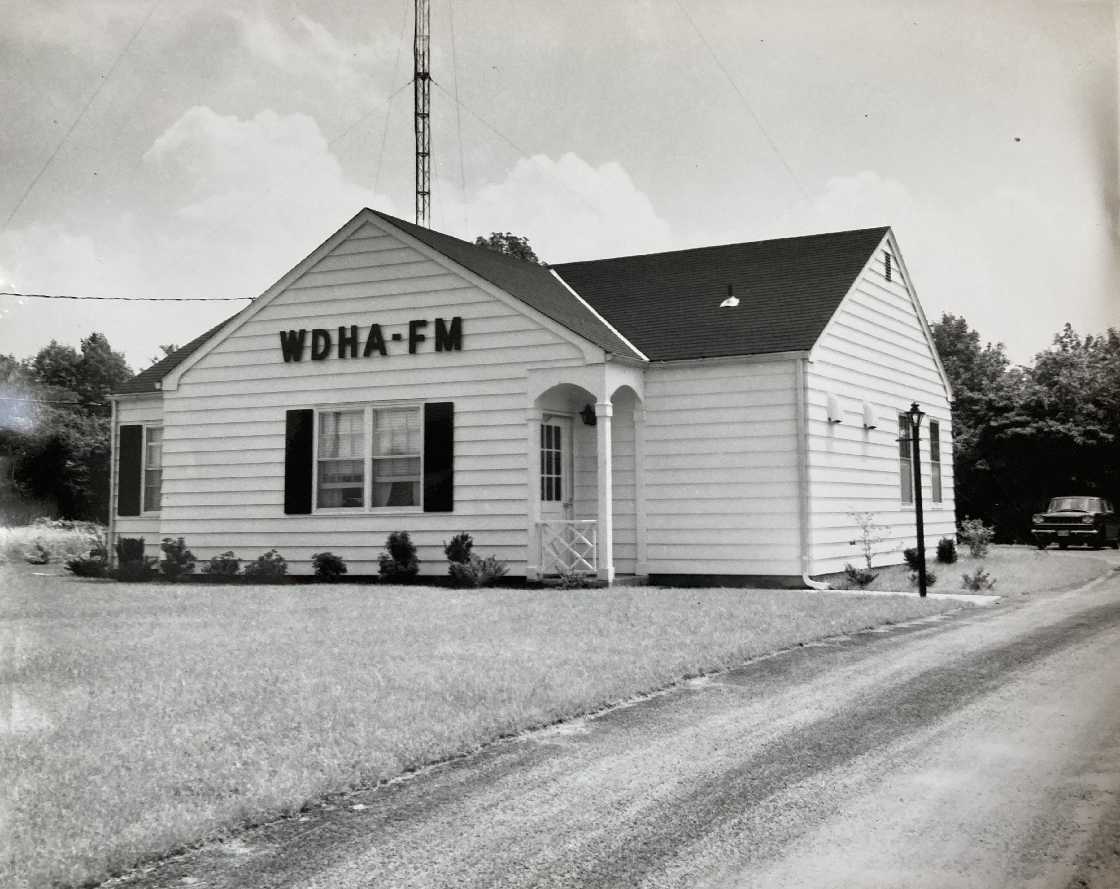 Exterior of WDHA, Circa 1961